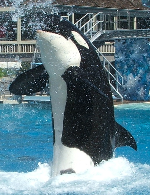 Orca show at Sea World San Diego